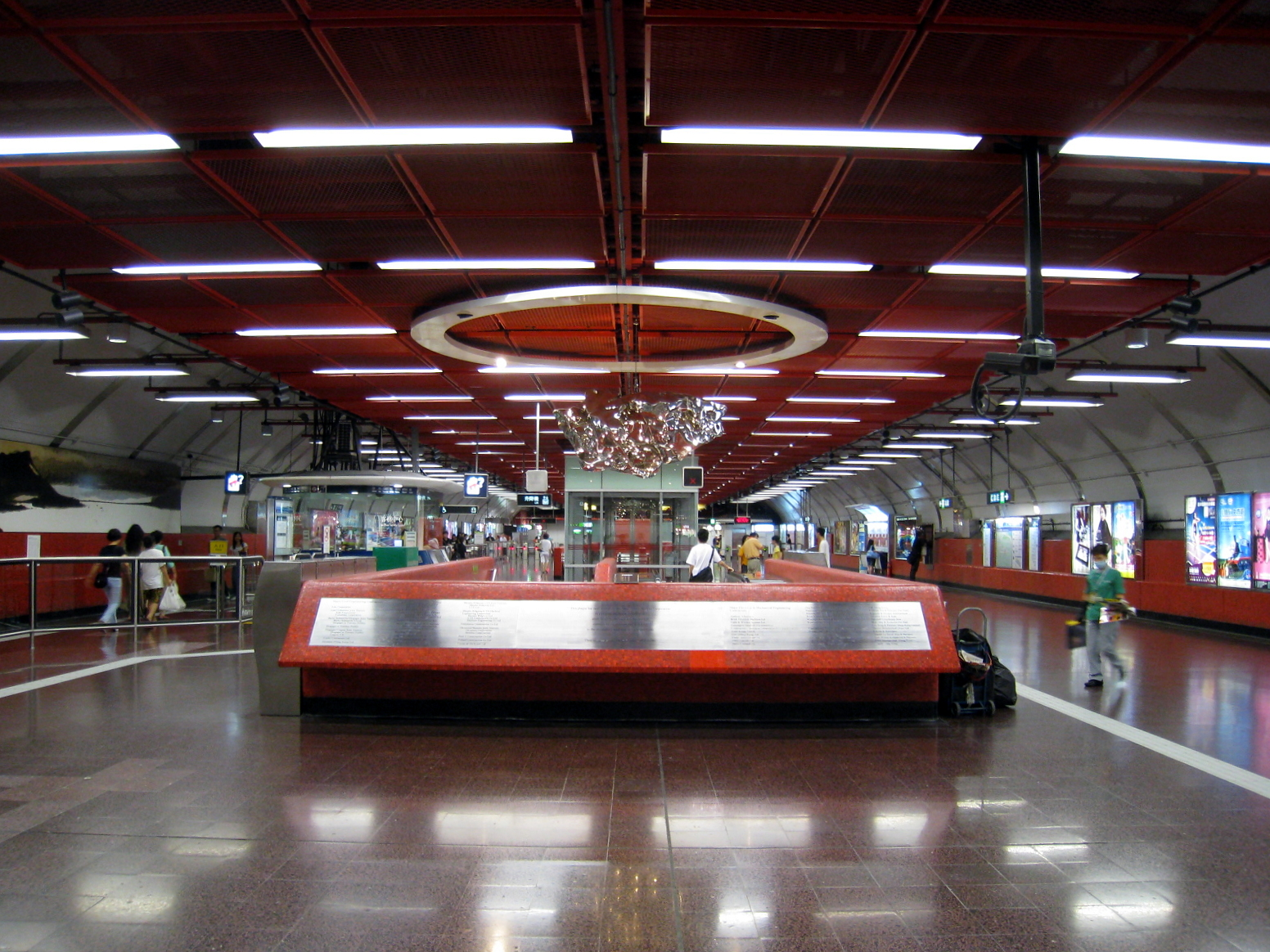 HK MTR Tai Koo Station Concourse 港鐵太古站 The Artificial Garden Rock #71, sculpture by artist Zhan Wang [1]